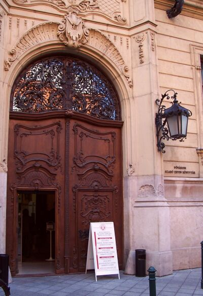 Entrance of the Central Library. Szabó Ervin Square No 1, Budapest District VIII.